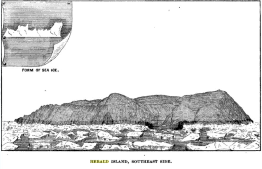 Sketch of Herald Island in the Chukchi Sea, view of the southeast end of the island. A ship, presumably the Corwin, is barely visible near the steep valley in the middle; this is consistent with Hooper's description of the landing site.